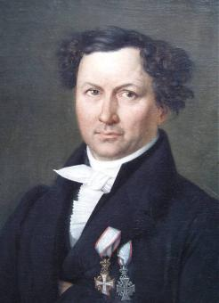 Portrait of Jørgen Hansen Lund, Danish architect and Royal Building Director. Owned by Jørgen Hansen Koch jr. (b. 1926).